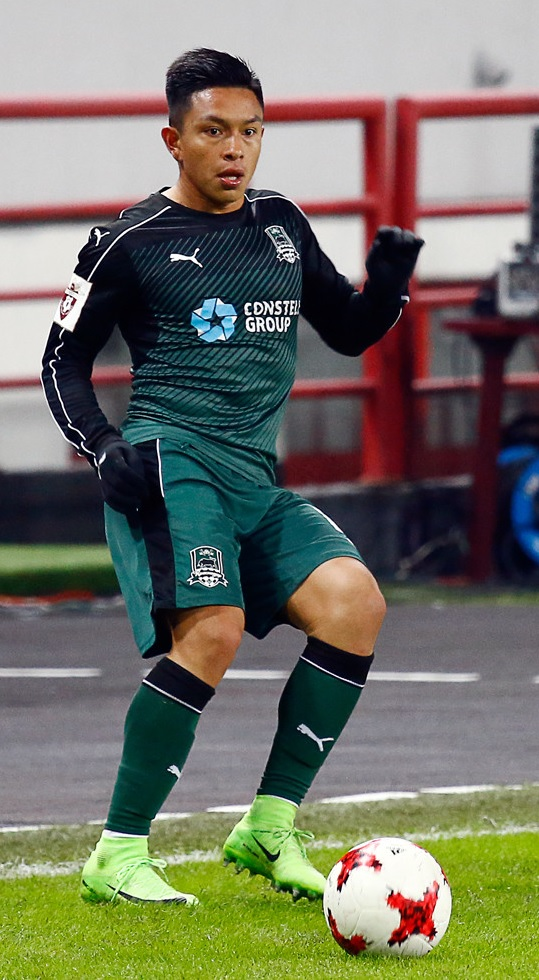 Cristian Ramírez with FC Krasnodar in a game against FC Lokomotiv Moscow.